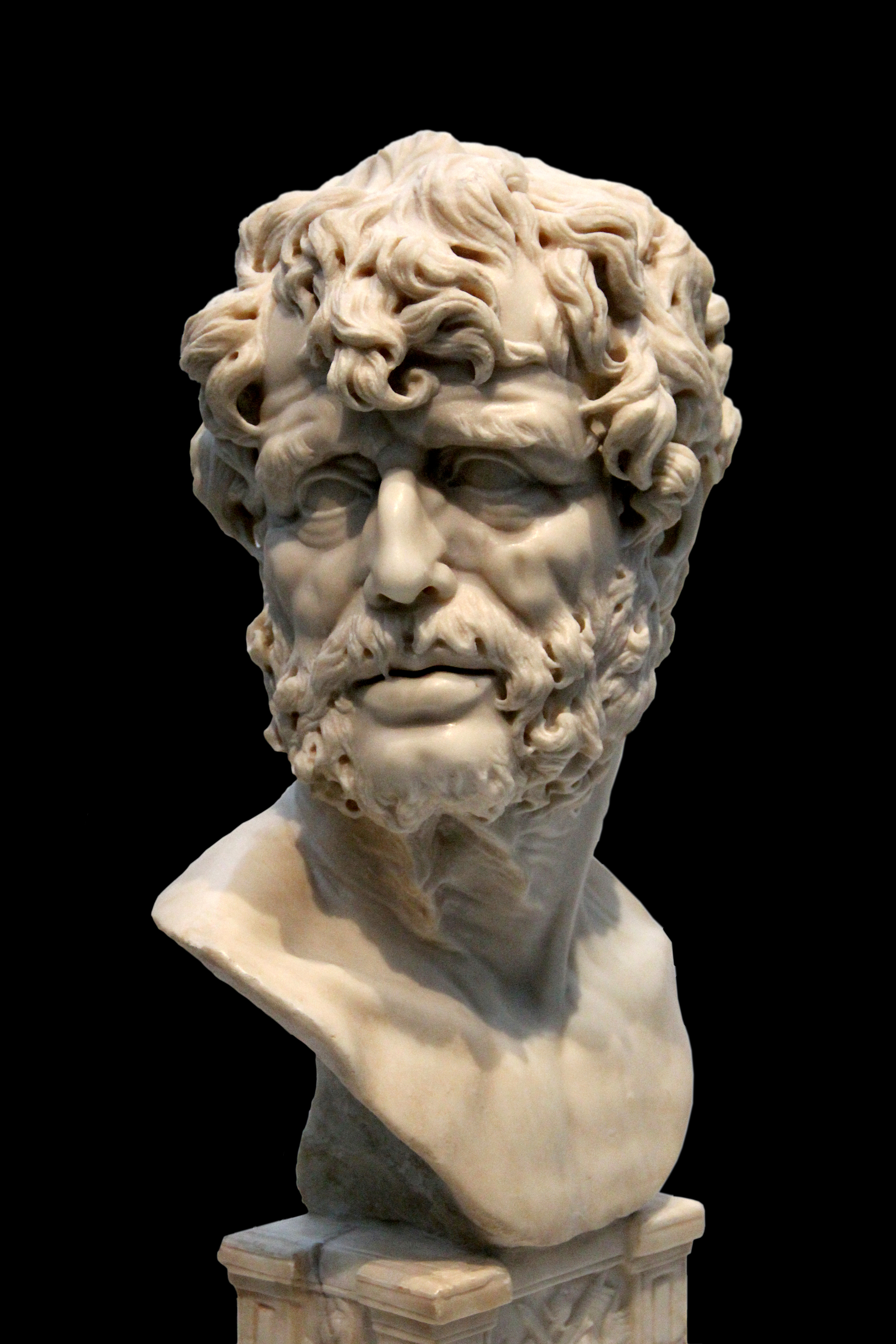 Bust of Seneca, marble made ​​by an anonymous author in the XVIIth century (H. 70 cm; pr 23 cm l. 33 cm). - Work Inventory N° Cat. E144 of the Museo del Prado in Madrid. Photograph taken during the exhibition "l'Europe de Rubens" (The Europe of Rubens) in the Louvre-Lens museum.